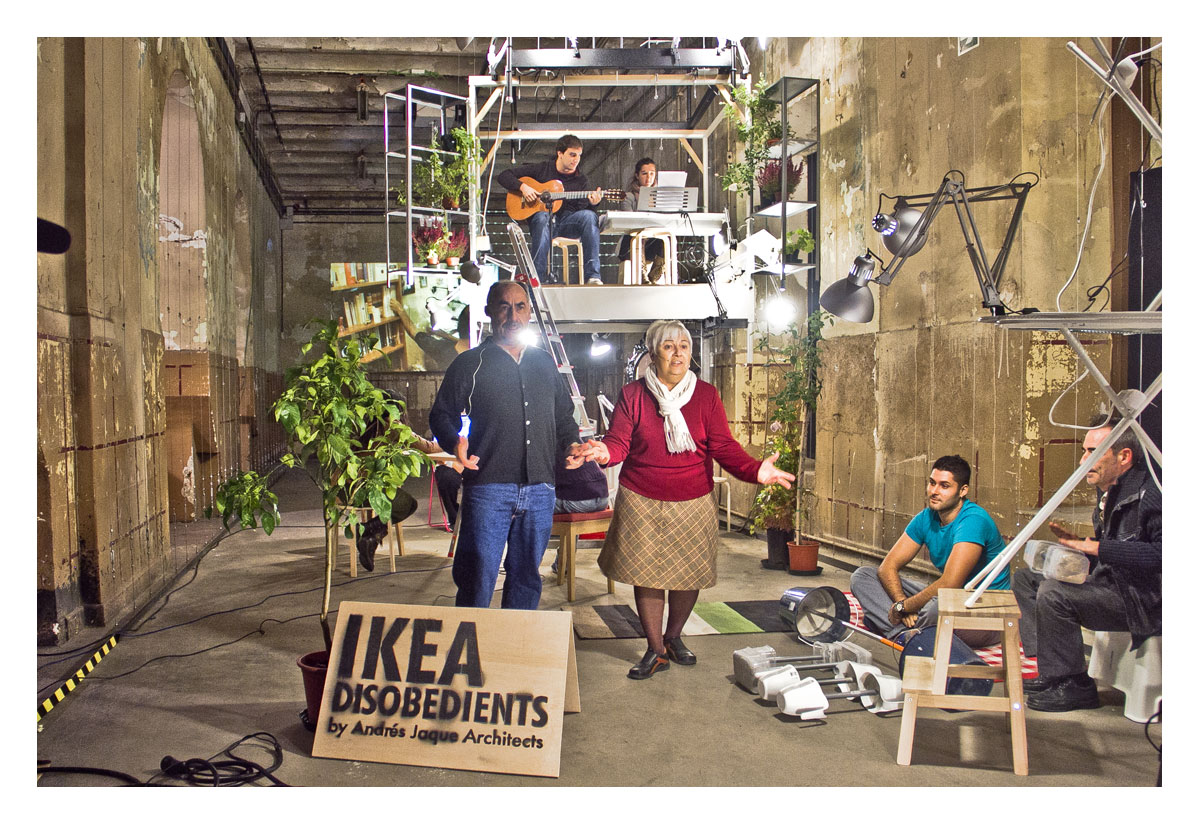 IKEA DISOBEDIENTS. Manifesto-performance by Andrés Jaque and the Office for Political Innovation. Madrid, 2011.